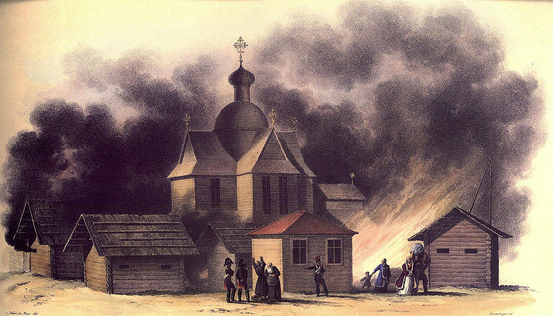 Suburbs of Beshankovichy, on the right banks of Dvina river (Daugava River), July 29, 1812. 1830s yy.